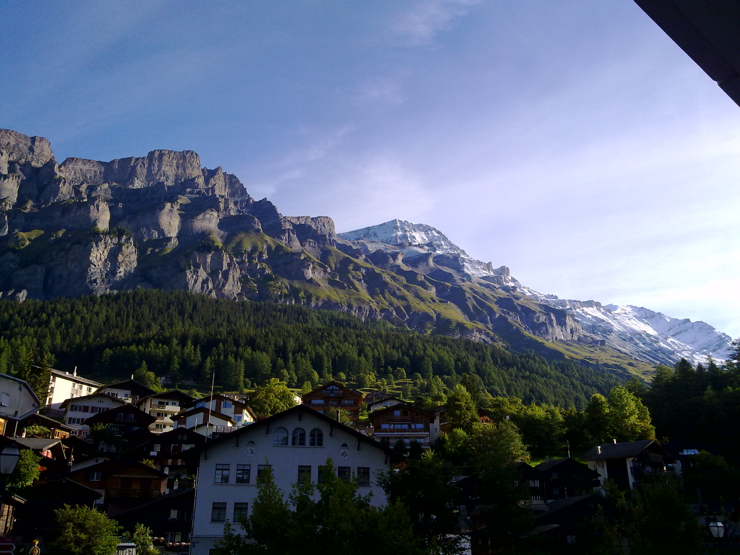 View from Leukerbad to the Rinderhorn (center) and Balmhorn (far right)